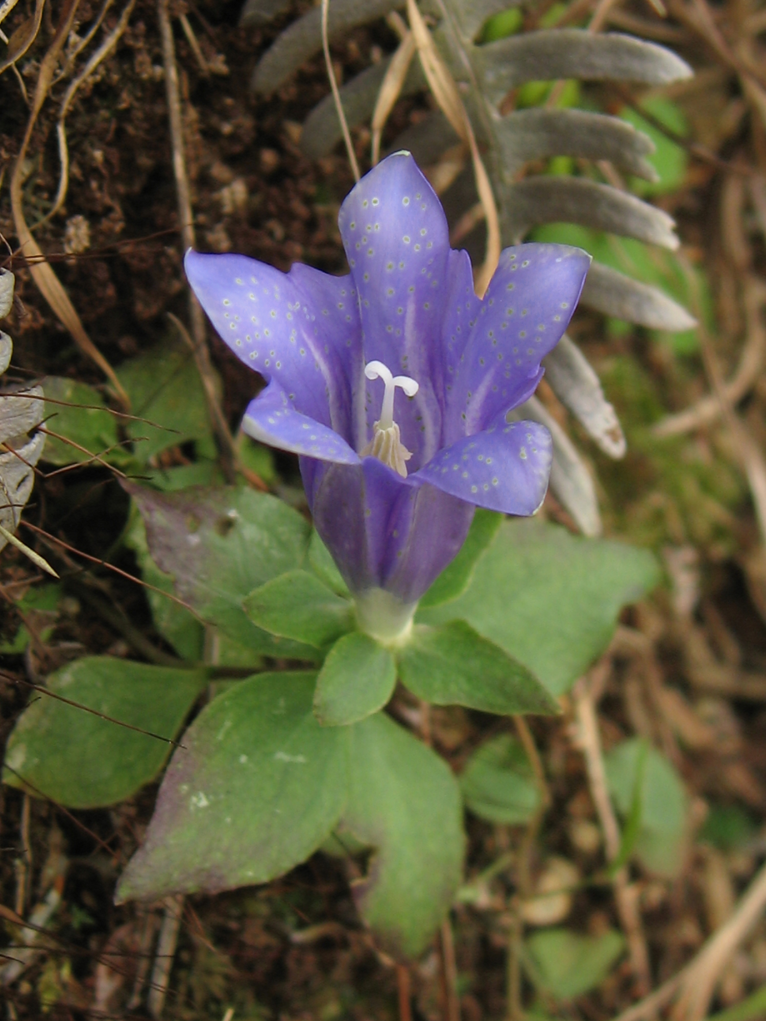 Gentiana sikokiana Maxim. Place taken: Ise, Mie, Japan.